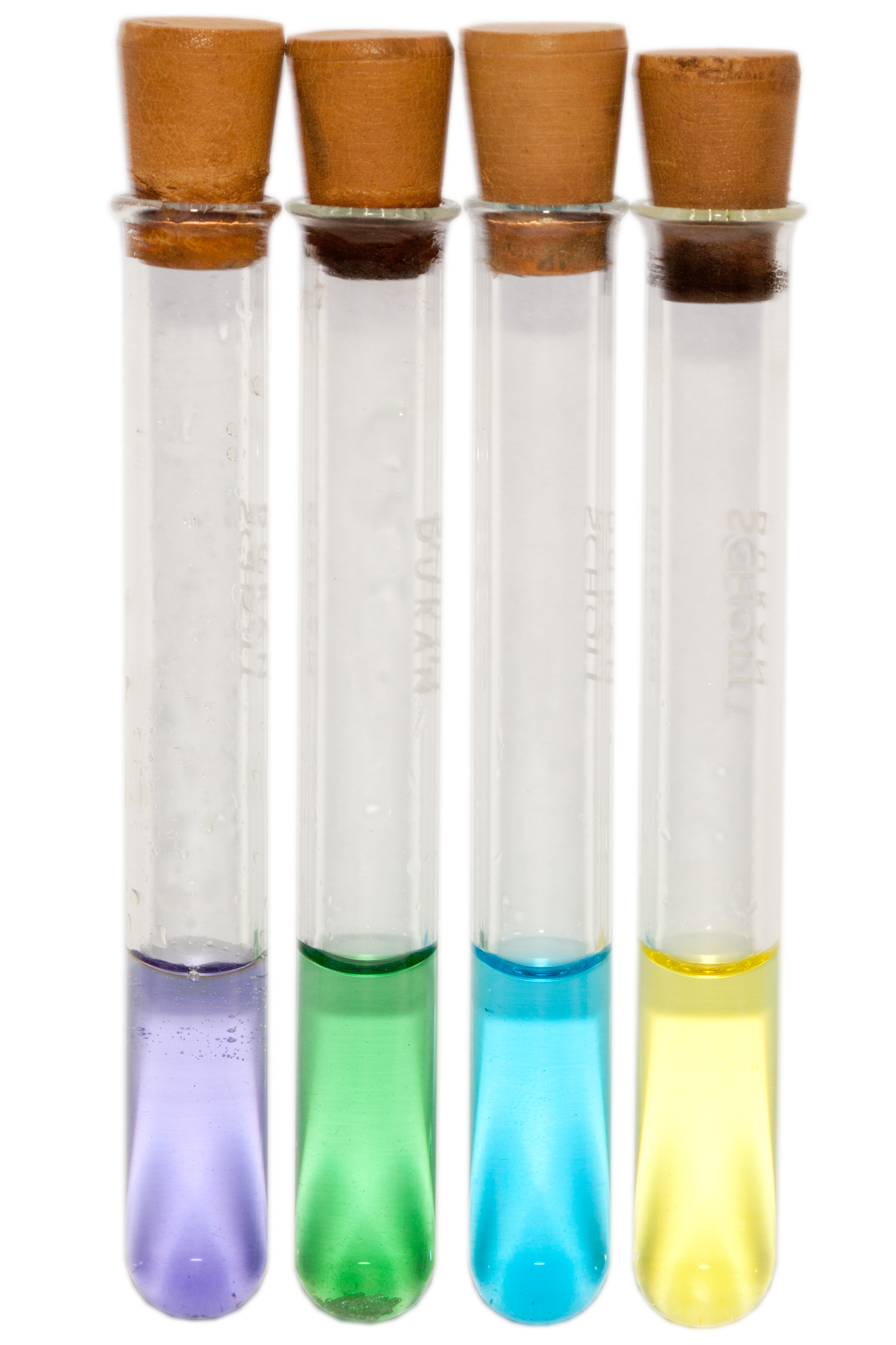 picture of the oxidation states of vanadium (2,3,4,5)